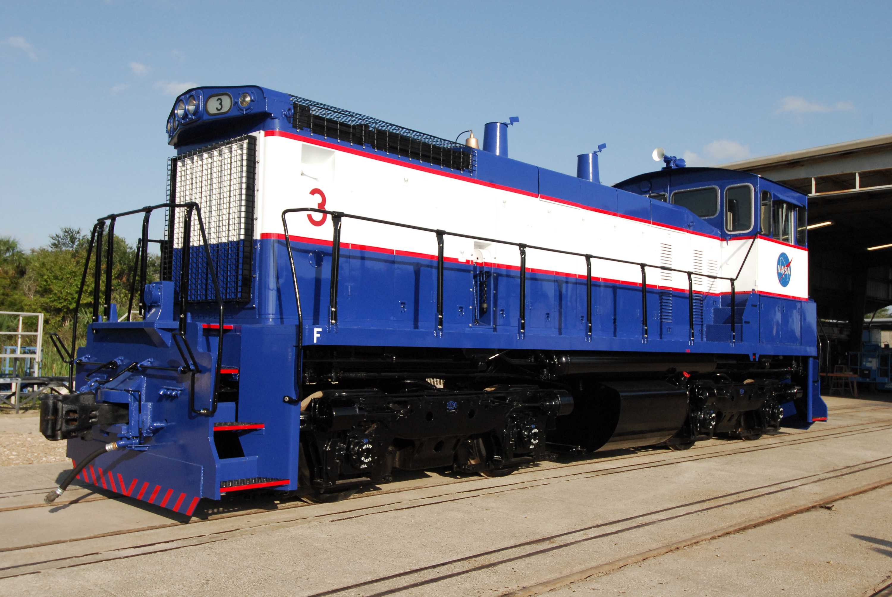 At NASA's Kennedy Space Center in Florida, NASA Railroad locomotive 3 has been repainted. The Railroad Operation and Maintenance Team at Kennedy completed the refurbishment of locomotive 3 in October. The 15-month process, including a new paint scheme, dealt with extensive corrosion to the locomotive because of Kennedy's proximity to the Atlantic Ocean. Locomotives 1 and 2 also will be refurbished eventually. The NASA Railroad locomotives are SW-1500 switch engines built by Electro Motive Diesel (EMD).